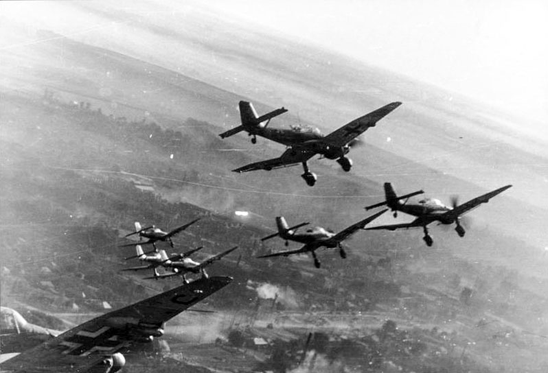 German Stuka dive bombers over the Eastern Front, World War II. A destroyed city is seen in the foreground (below the Junkers Ju 87s)